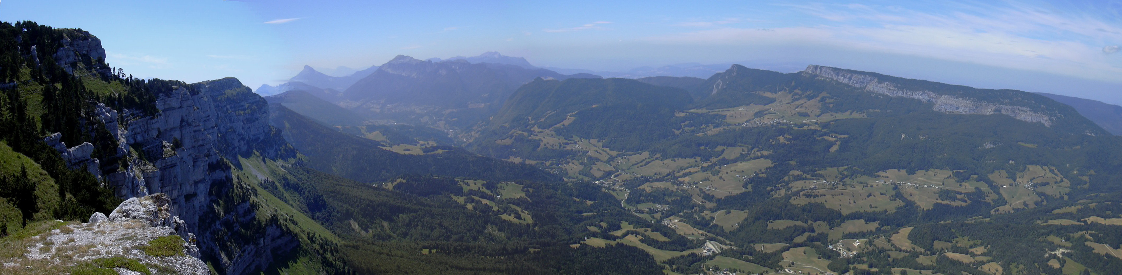 The Chartreuse massif, view from the top of Mont Granier. Photograph by french wikipedia user 3Samz in july 2003.